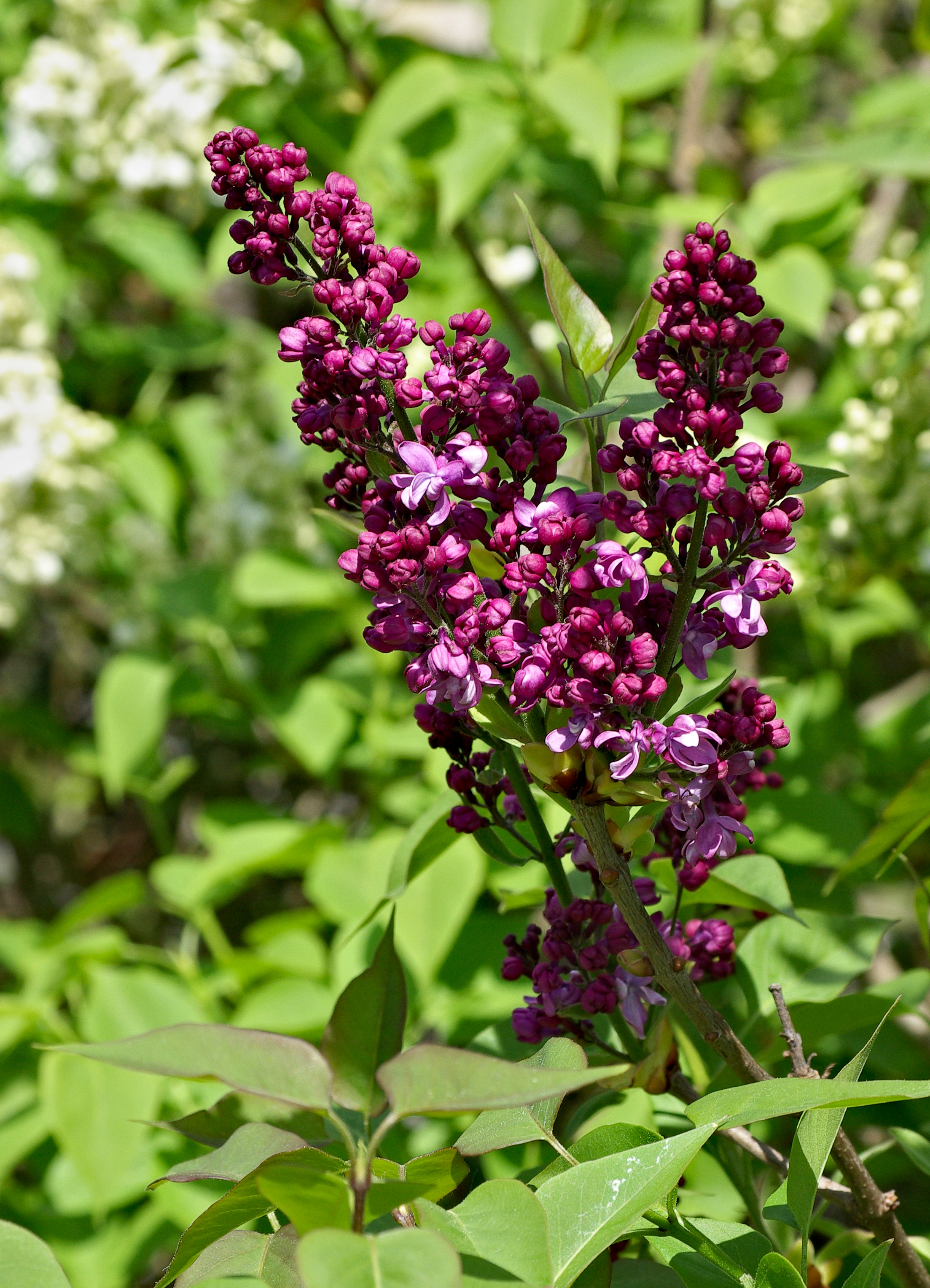 Common lilac (Syringa vulgaris) opening buds and leaves, in a garden, France.